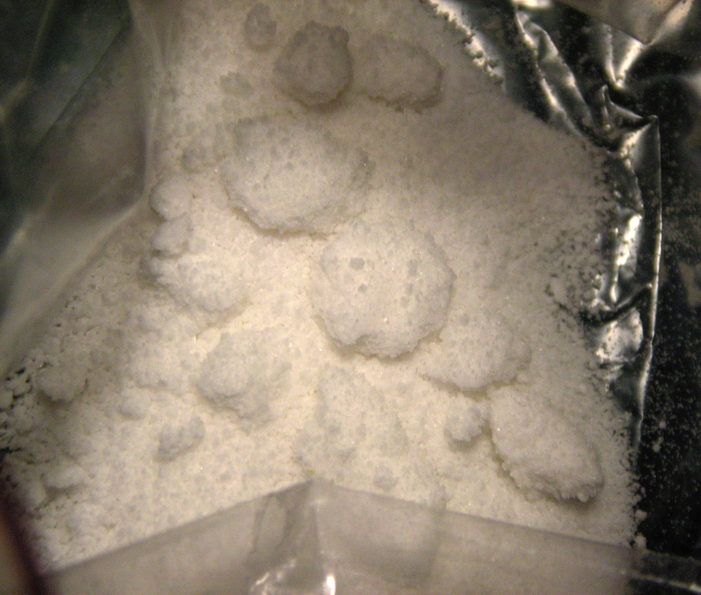 100% Pure Methylenedioxymethampethamine